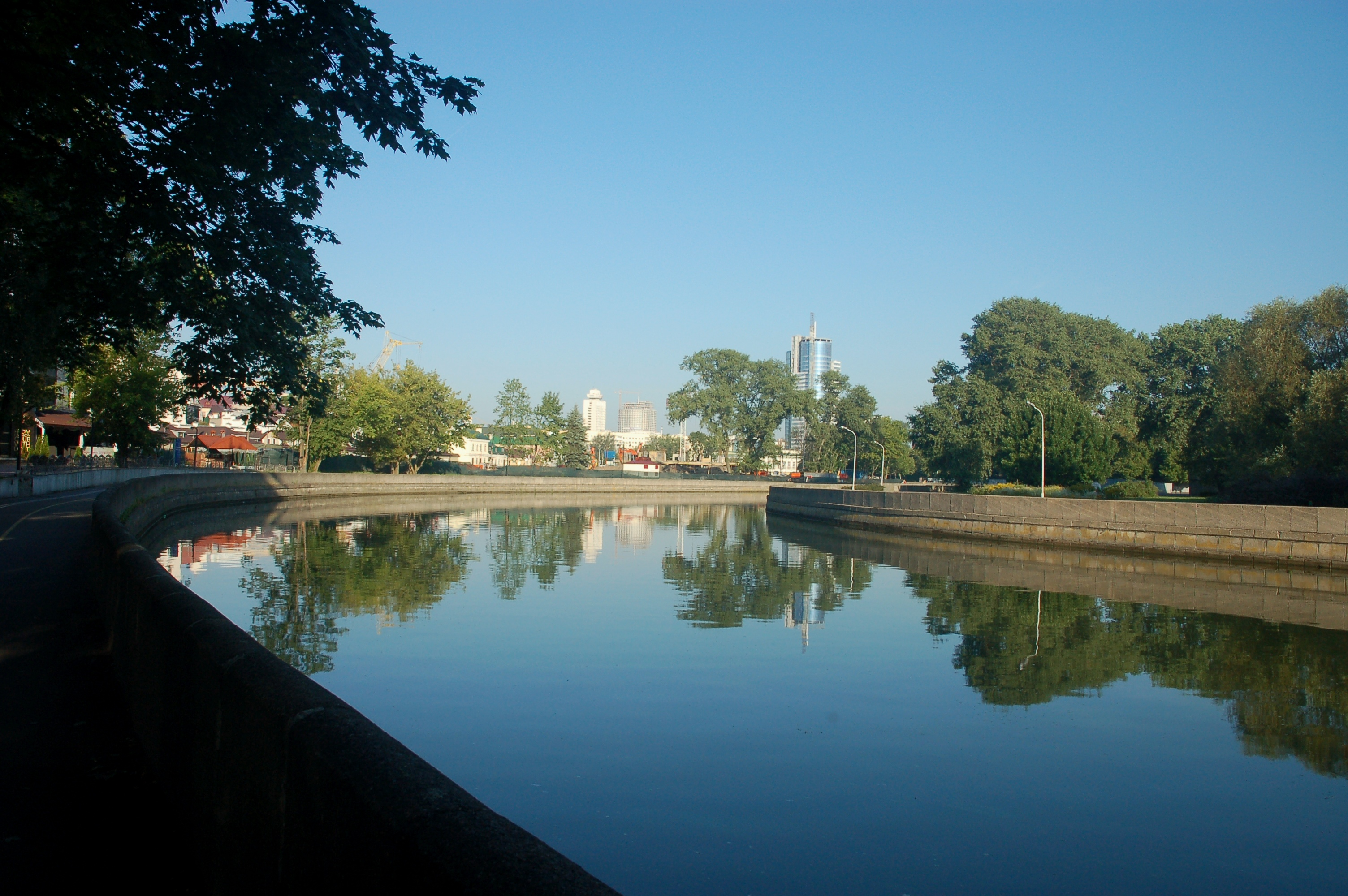 Minsk, the Svislach River as seen from the bridge along Yanka Kupala Street